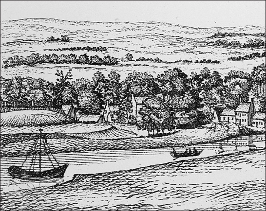 An eighteenth-century depiction of the southern bank of the River Clyde at Govan.